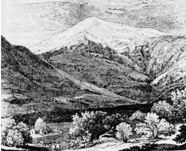 Armenian Monastery of St. Jacob at Ahora and Mount Ararat